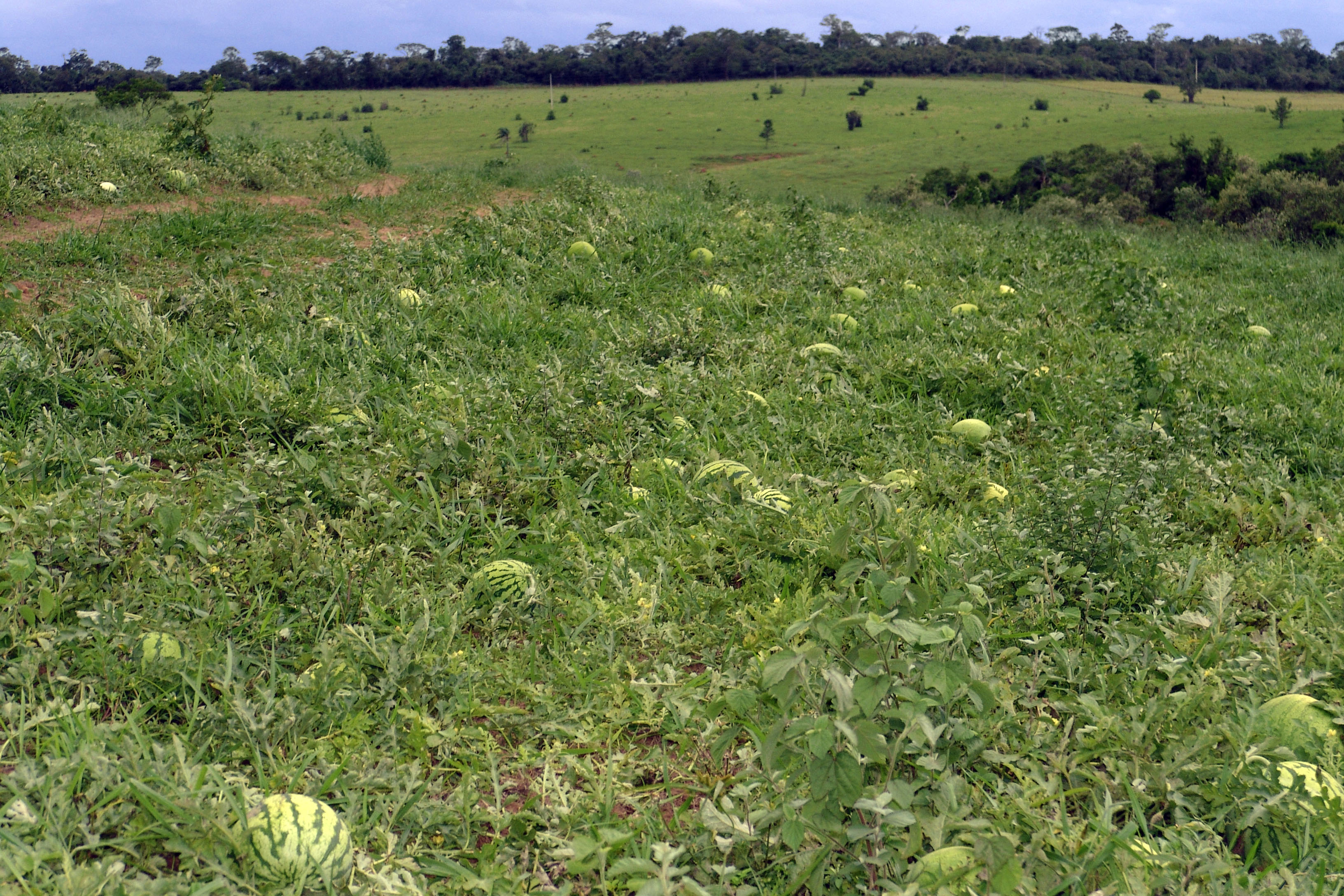 Water melon plantation; Avaré, São Paulo, Brasil